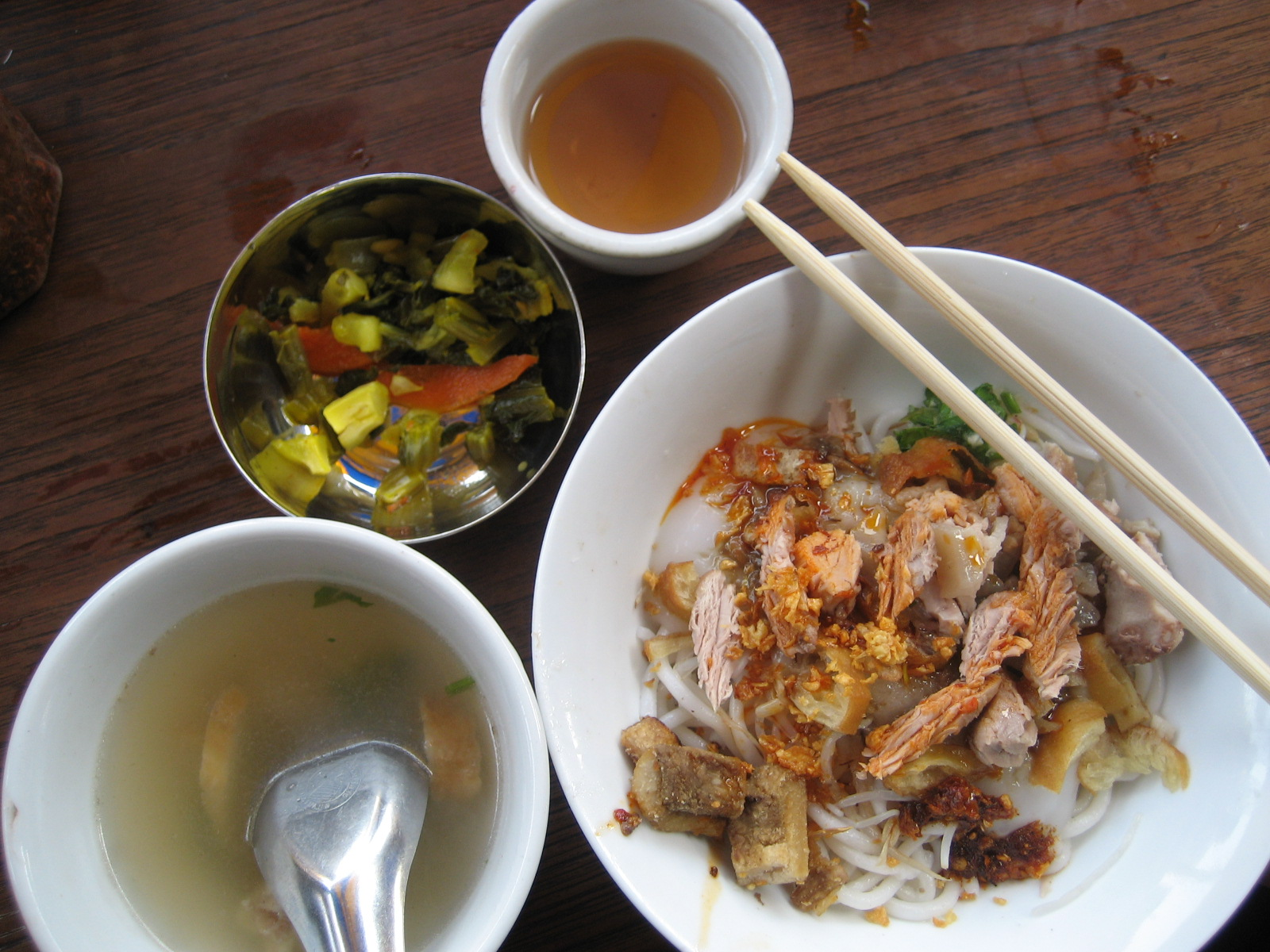 Mandalay Meeshay at Min Thiha restaurant